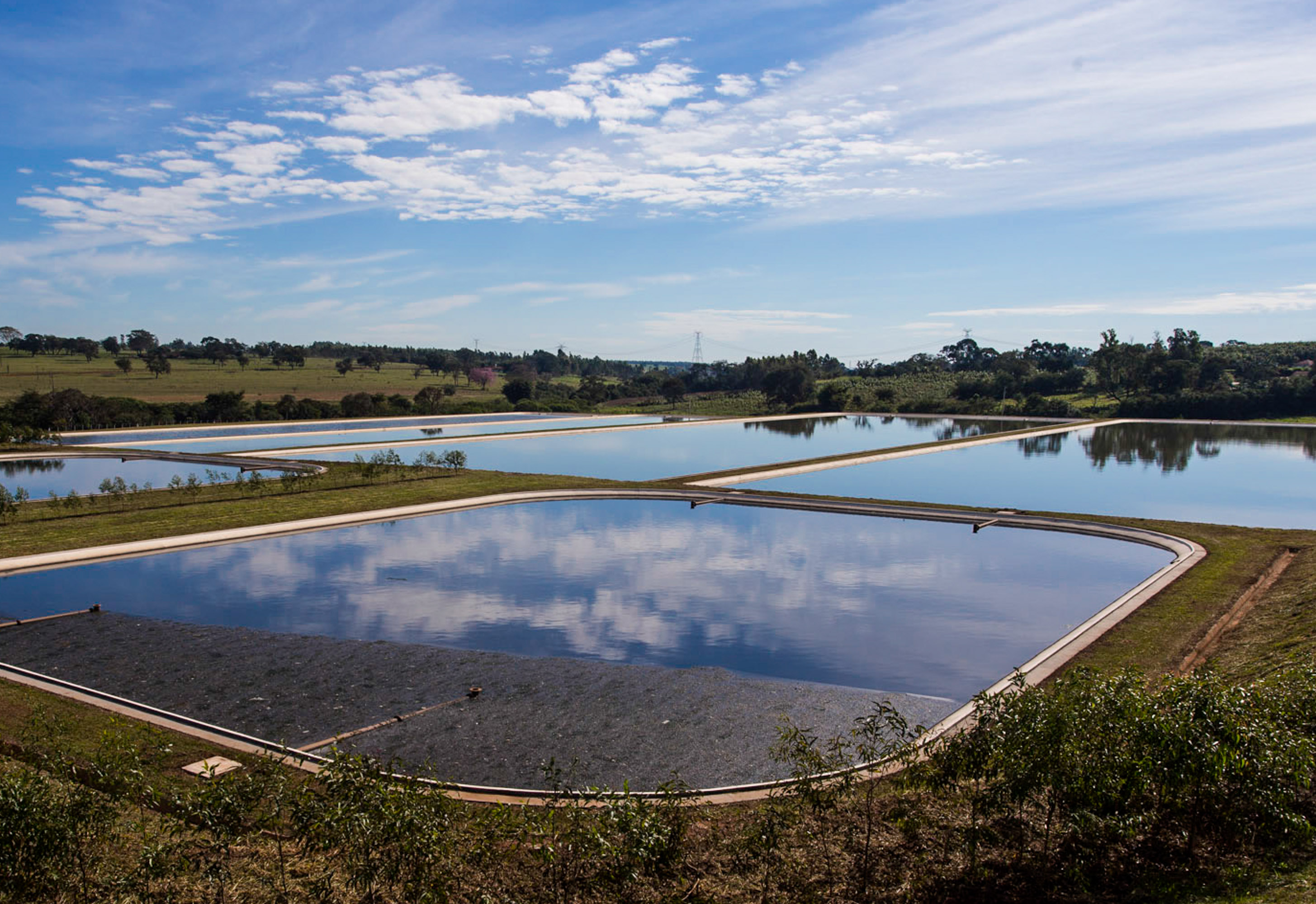 Governador de São Paulo Geraldo Alckmin realiza entrega das obras do Sistema de Esgotamento Sanitário (SES) em Valentim Gentil. Data: 30/05/2015. Local: Valentim Gentil/SP. Foto: Caio Cestari/A2IMG.